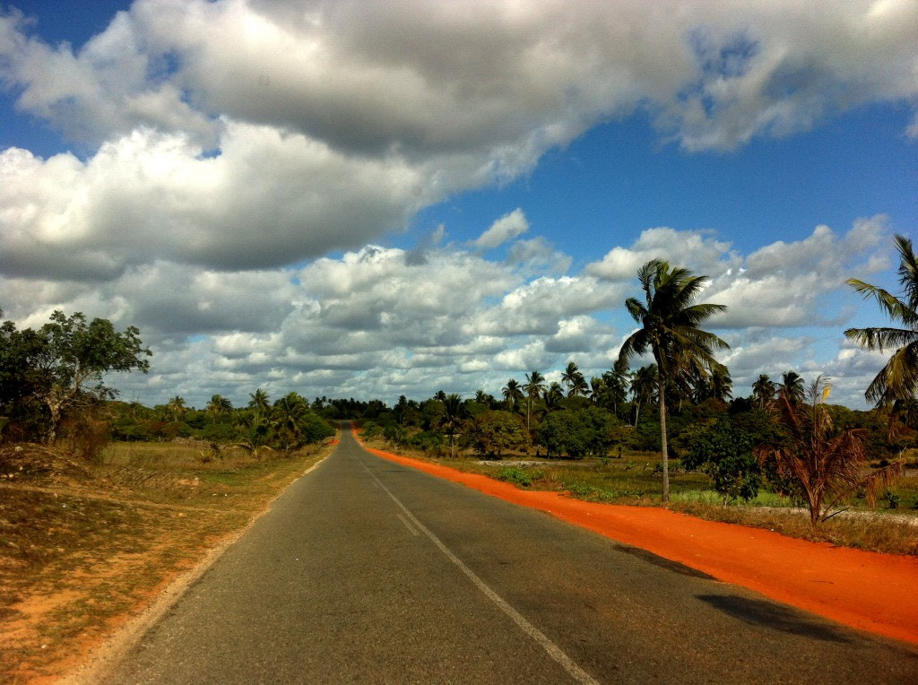 500px provided description: On The Way In Mozambique [#trees ,#sky ,#nature ,#travel ,#blue ,#sun ,#clouds ,#road ,#beautiful ,#sand ,#africa ,#cloud ,#dream ,#wild ,#mozambique ,#mo?ambique ,#summer holiday]